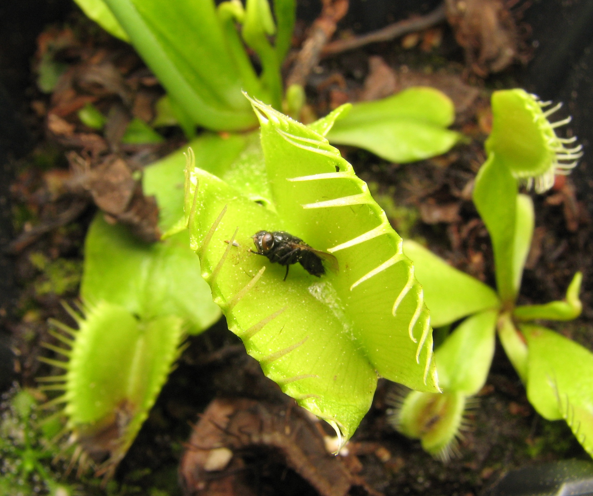 Fly trapped by Dionaea muscipula. Pennypack Restoration Trust, Montgomery County, Pennsylvania, USA.